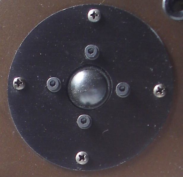 A dome tweeter.